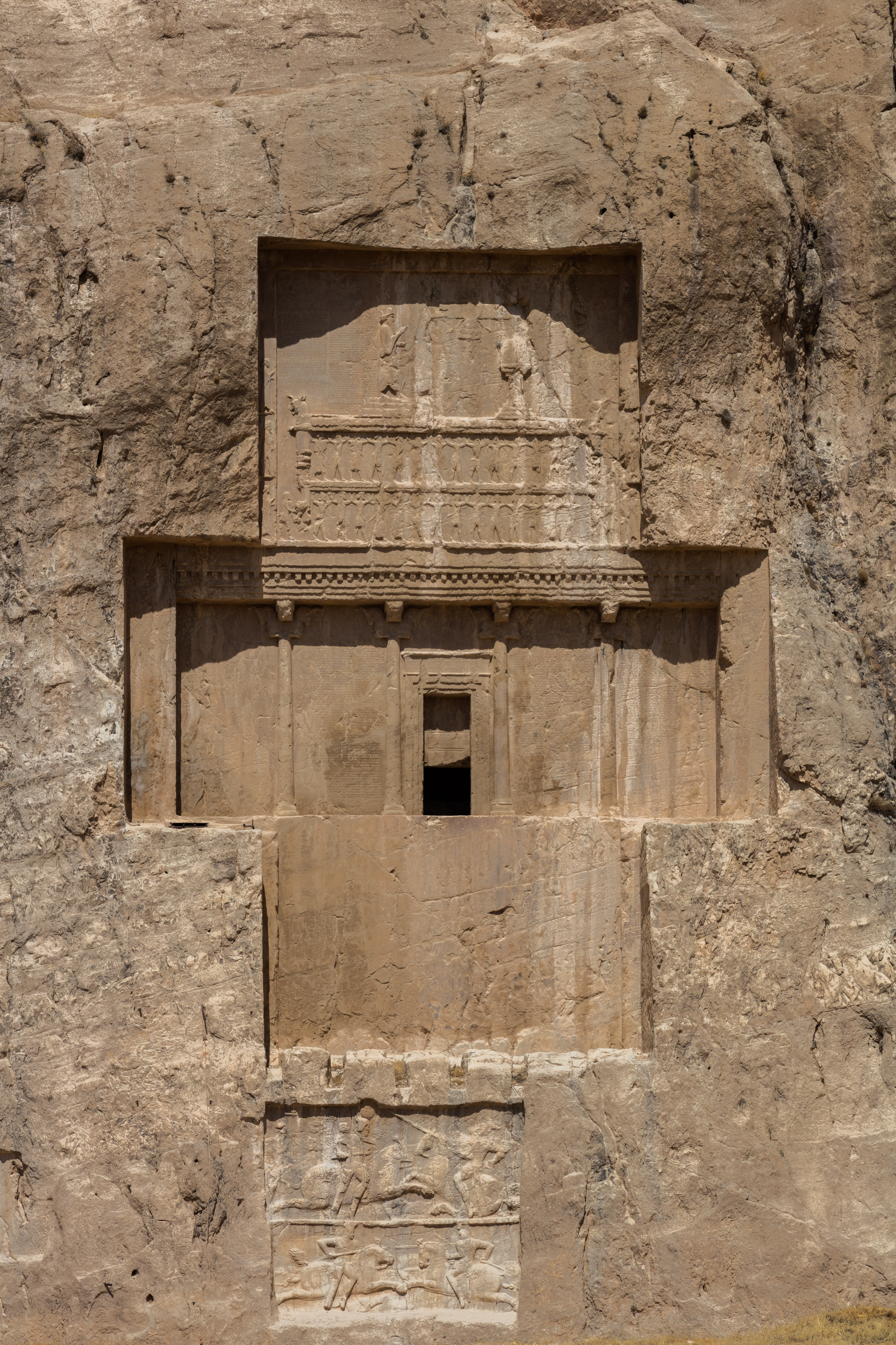 Naghsh-e rostam, Iran